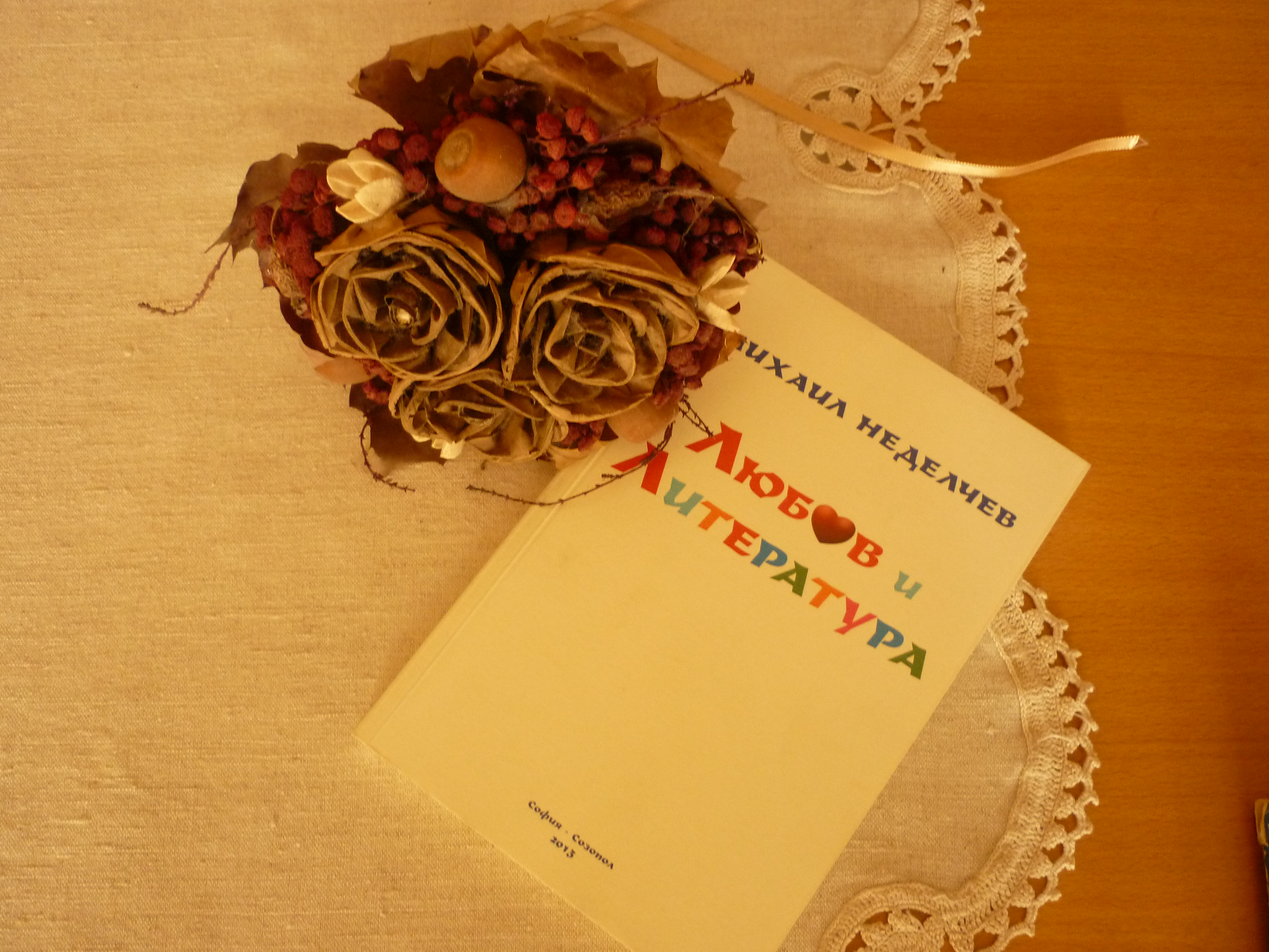 „Love and Literature“, cover of the first Bulgarian edition, 2013